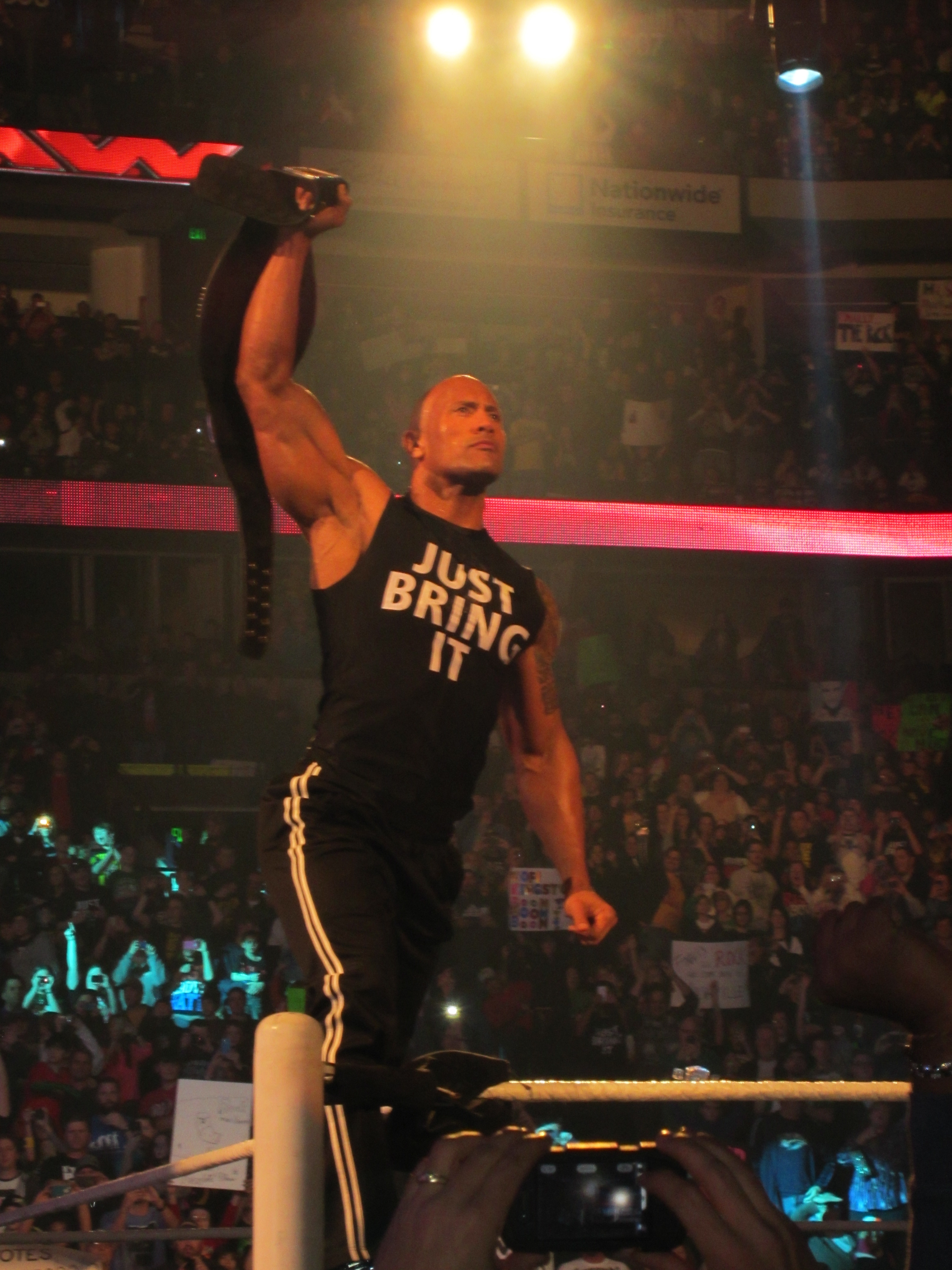 Signature Pose for the Rock